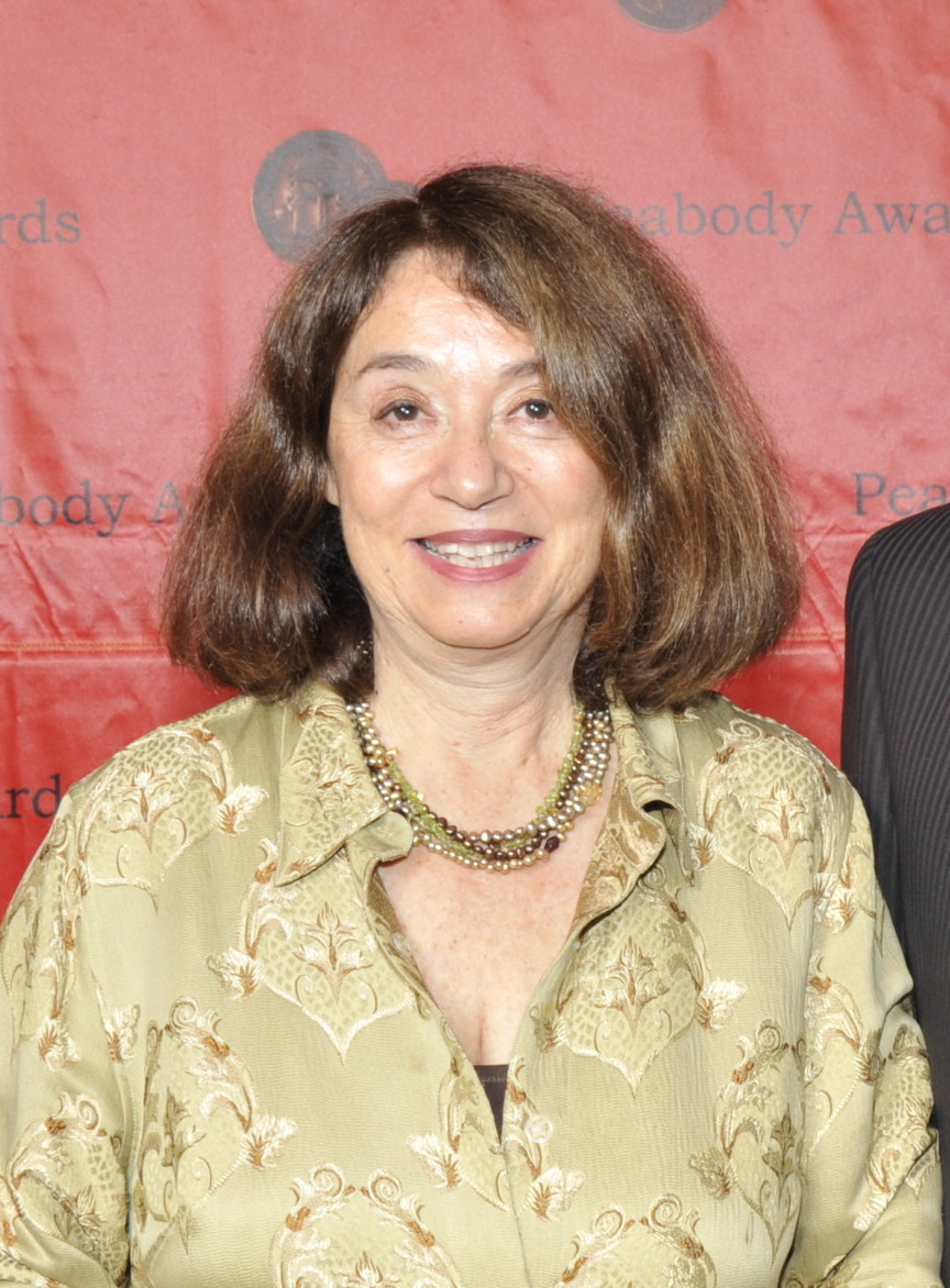 PHOTO CREDIT: ANDERS KRUSBERG / PEABODY AWARDS Judith Ehrlich, 70th Annual Peabody Awards Luncheon Waldorf=Astoria Hotel May 23, 2011